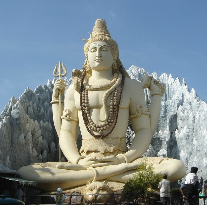 This Statue of Shiva is Approximately 65 feet tall and is made of concrete and is located at Murugeshpalya at Bangalore. There is a tunnel like structure underneath the statue where different models of Shiva are kept.